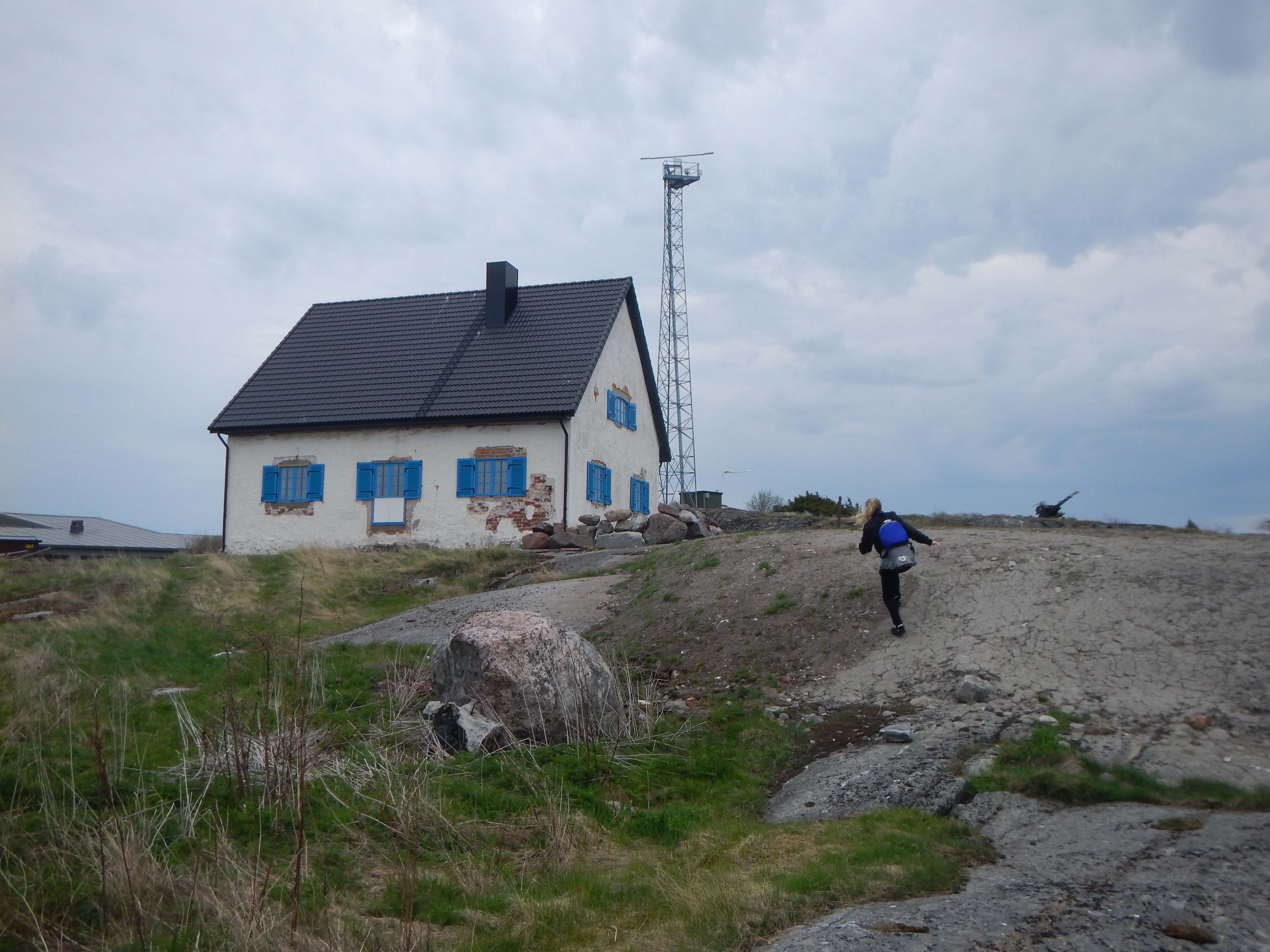 Probably Nagu's oldest house